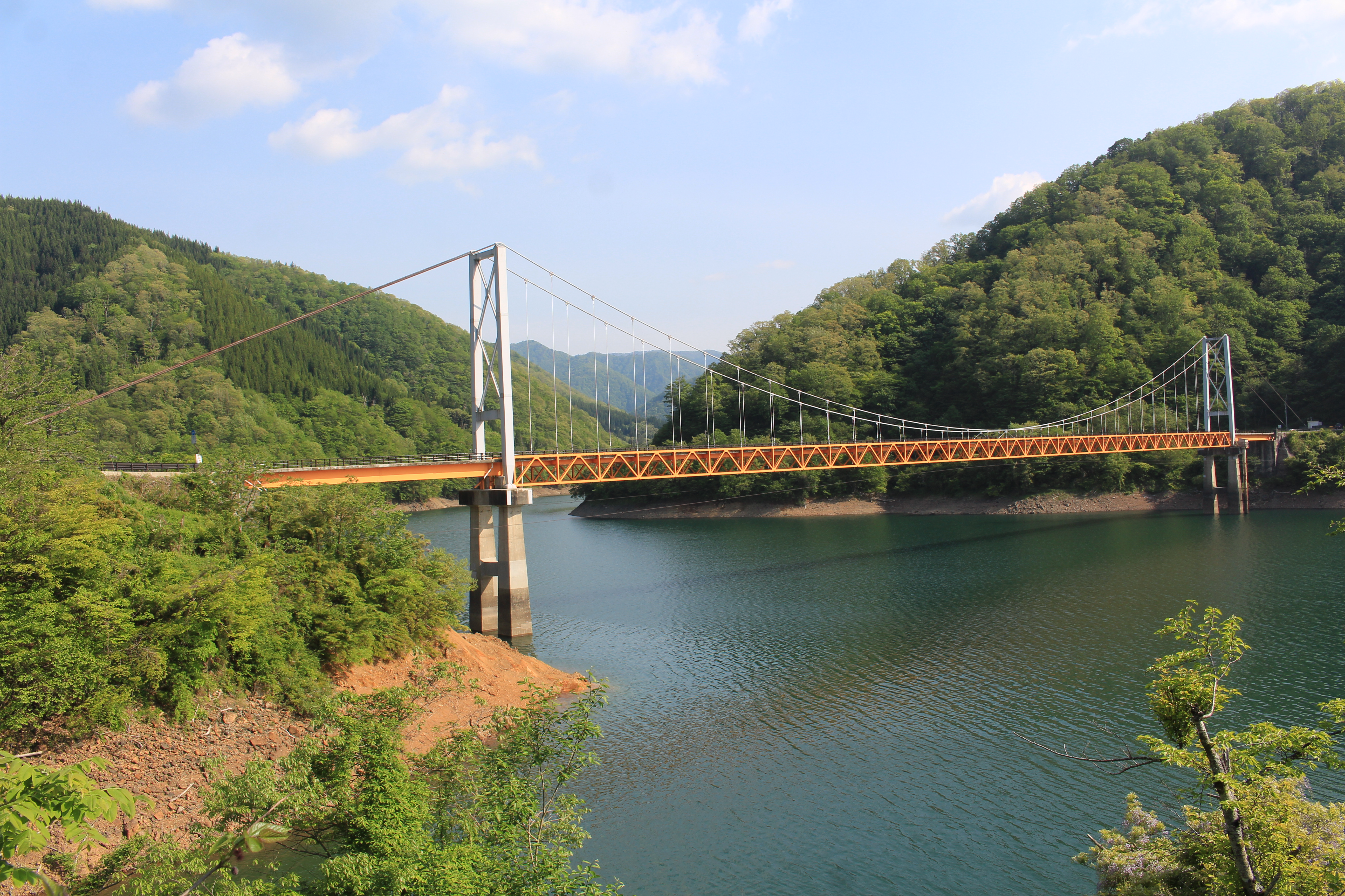 Hakogase Bridge (Hakogase-bashi), a bridge of Fukui Prefectural Road Route 230 over Lake Kuzuryu in Ōno, Fukui prefecture, Japan.